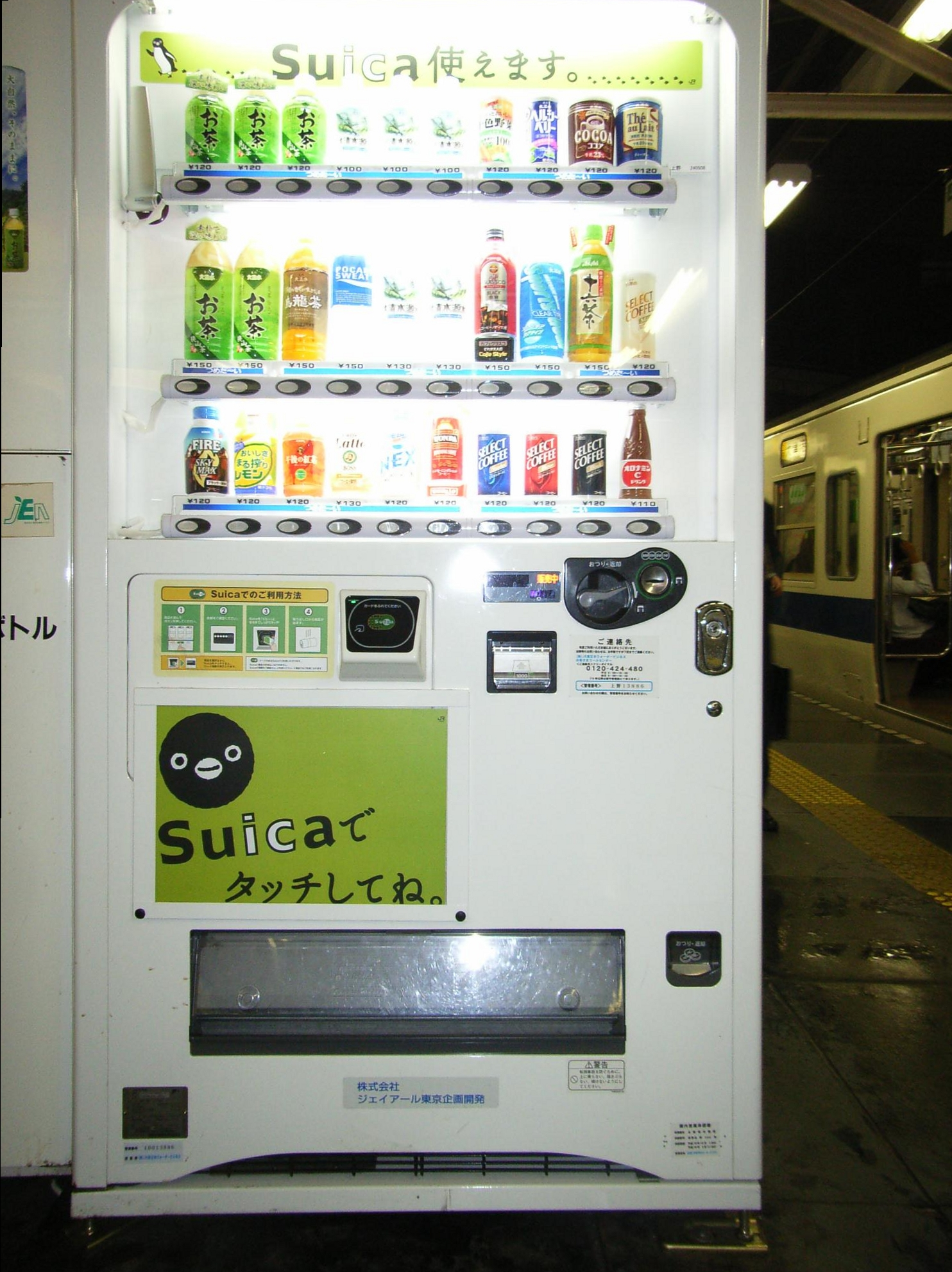 This vending machine is payable by "Suica".